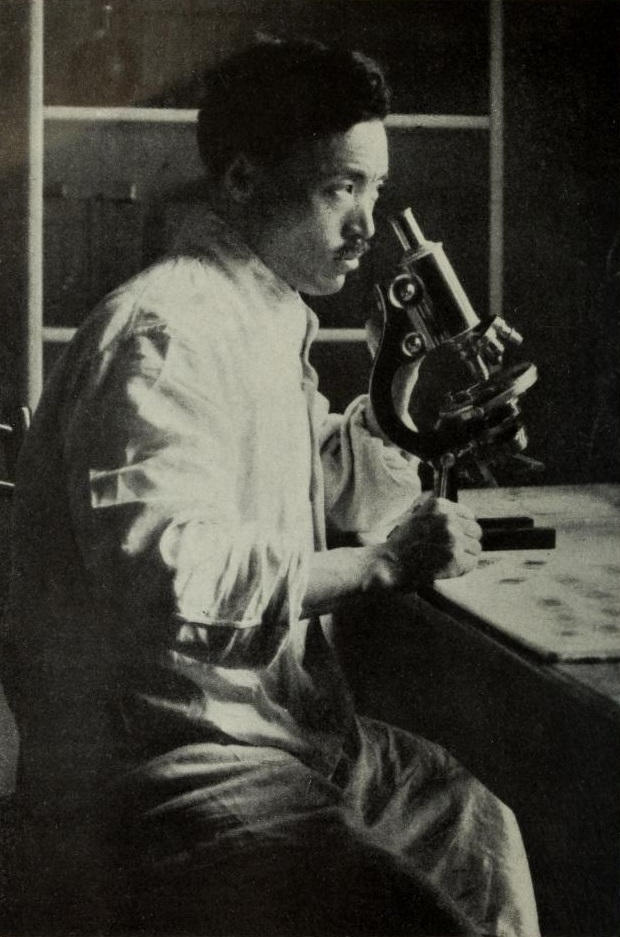 Picture of Dr. Hideyo Noguchi